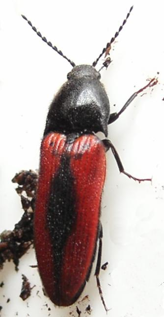 Ampedus sanguinolentus, captured in a forest near Hinsbeck, Germany.